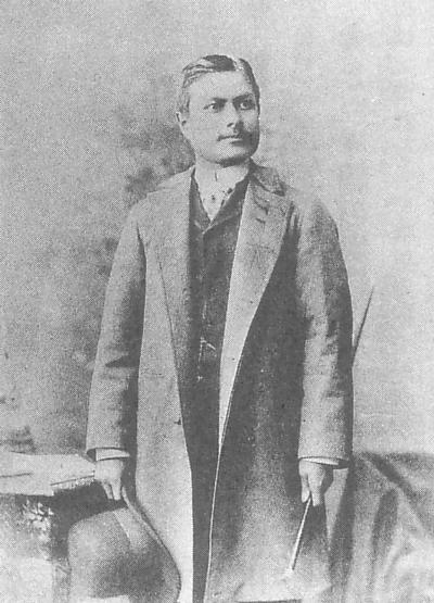 a viscount from Japan,三島彌太郎（Yataro Mishima）